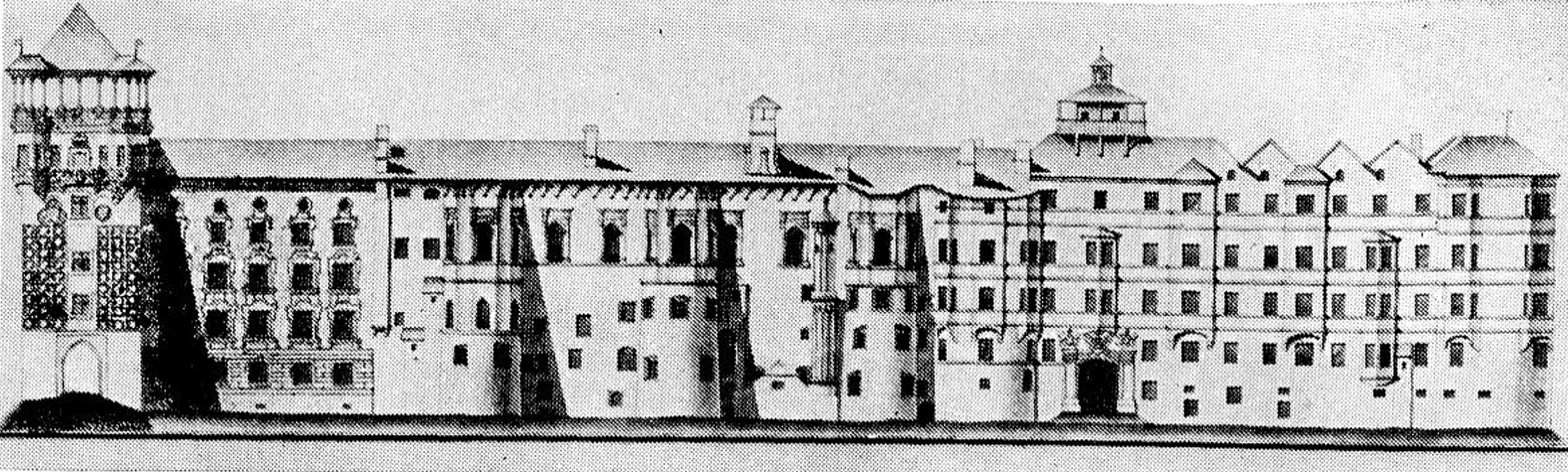 The Hofburg, Innsbruck before its Baroque reconstruction